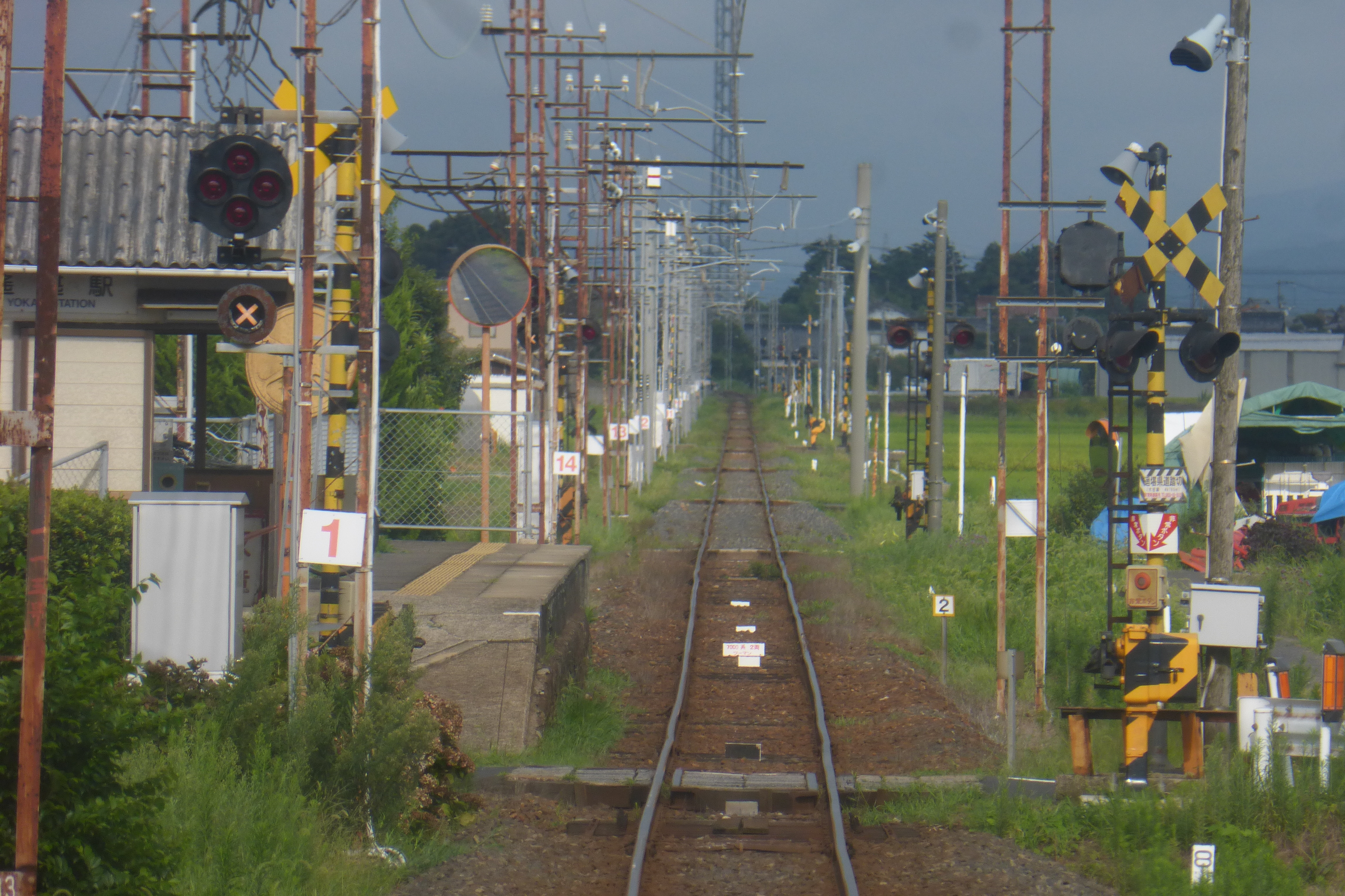 Yōkan Station platform (遙堪駅のホーム)